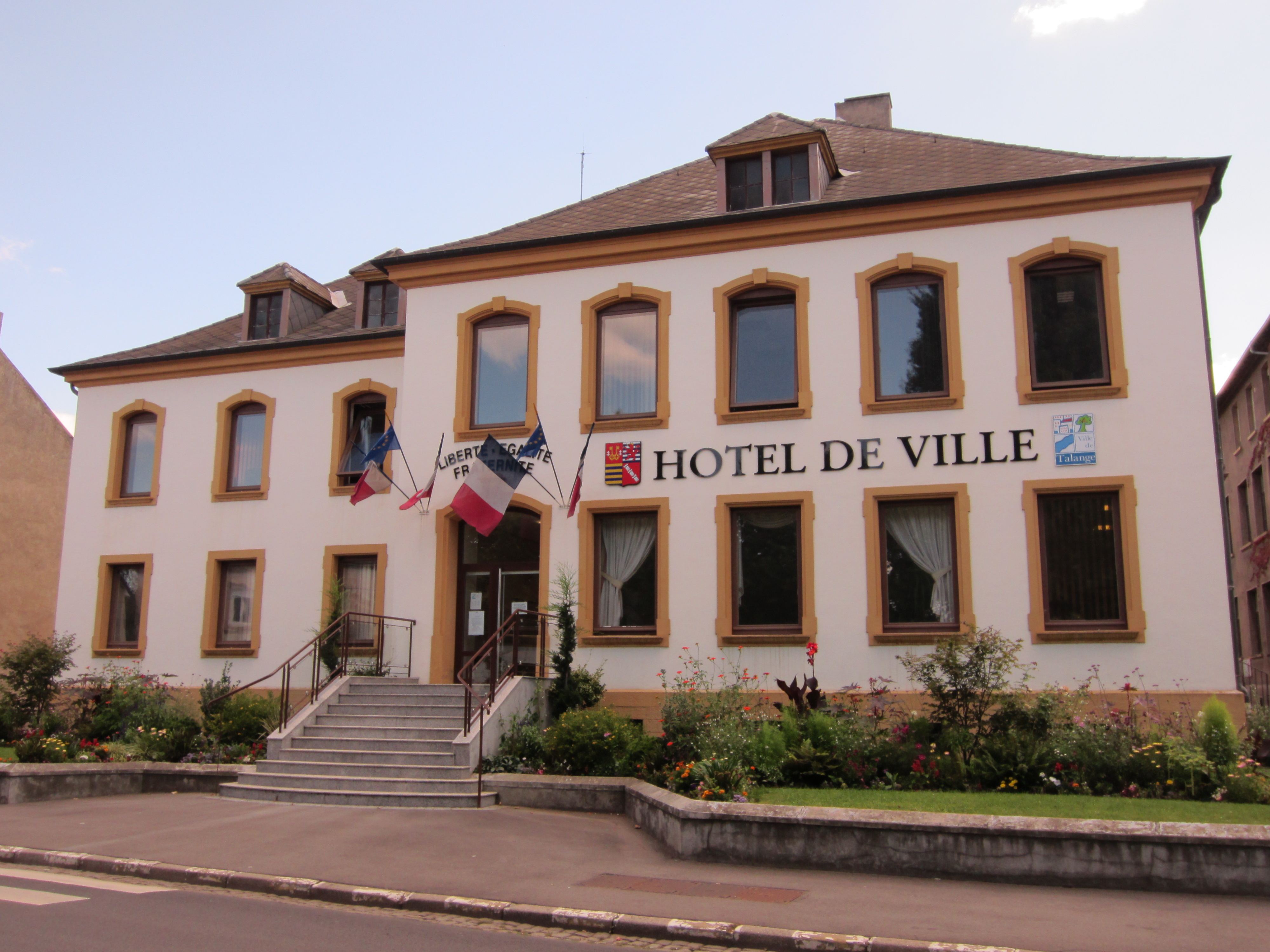 Description mairie Talange Date31 August 2011Sourcemon appareil photoAuthorAimelaimePermission (Reusing this file) mairie Talange